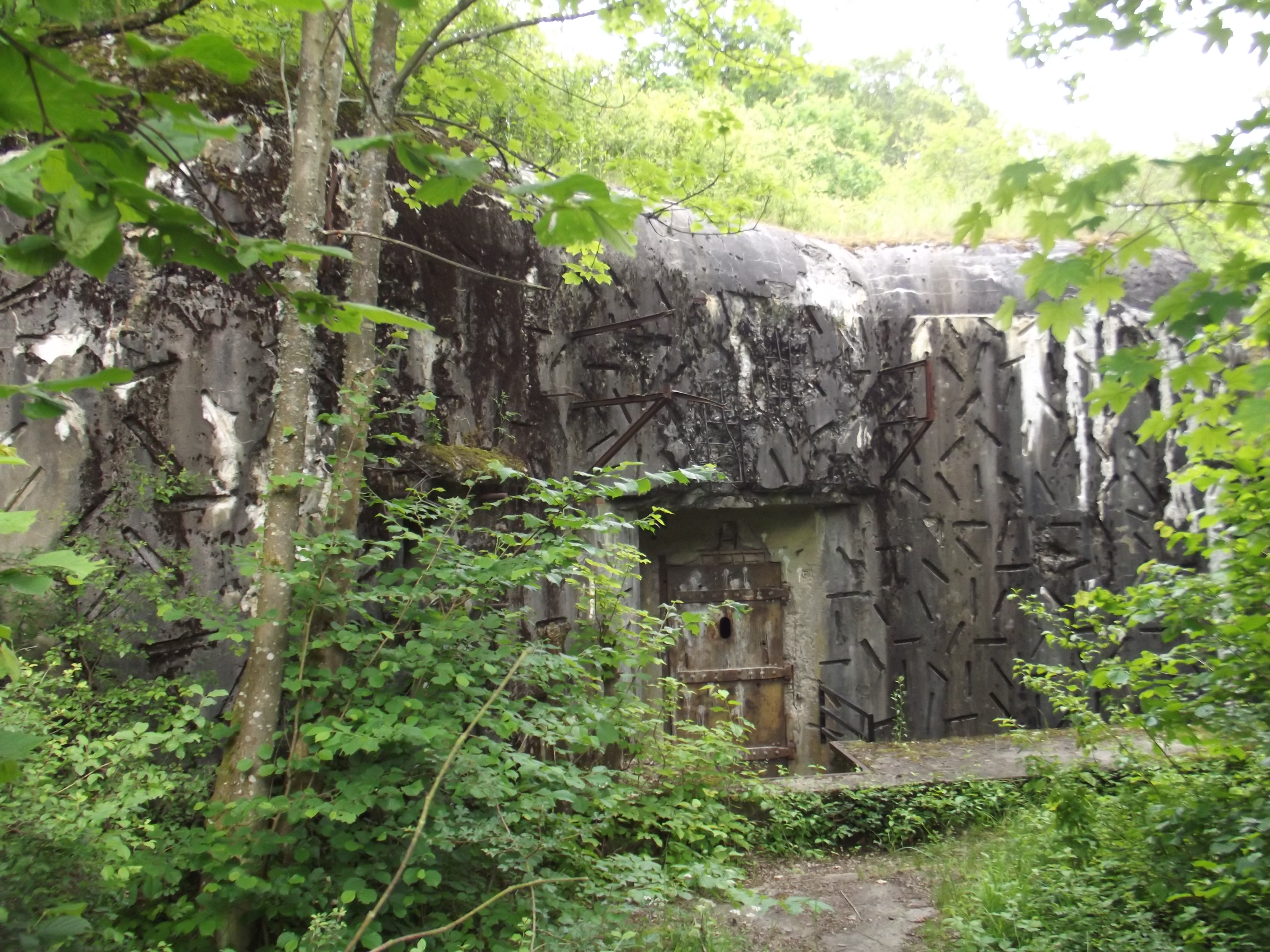 Bloc 3 of the lesser Ouvrage Teting (condition in June 2012).